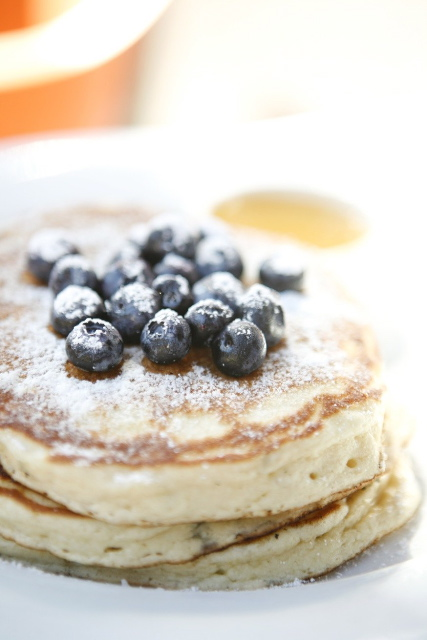 Neil's (Neil Kleinberg) blueberry pancakes, made at the Clinton Street Baking Co.